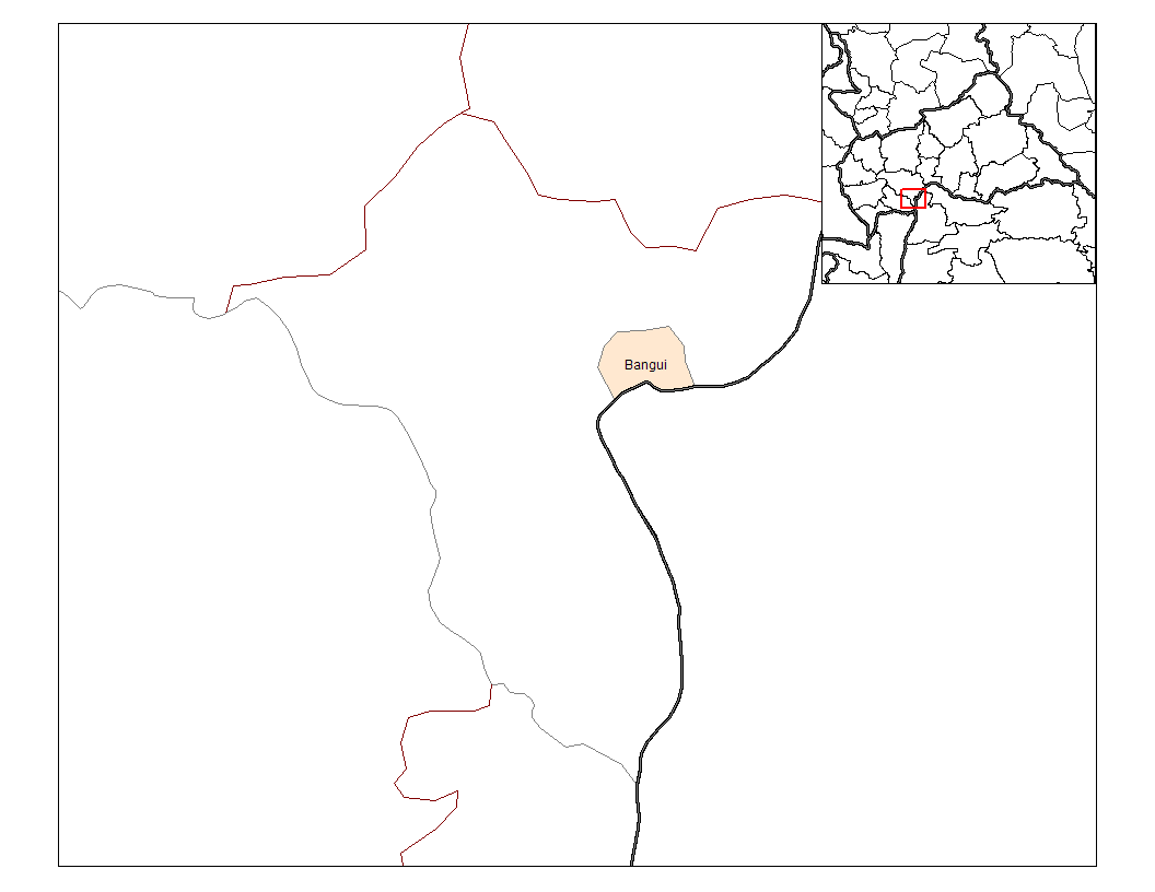 Map of the Bangui commune in the Bangui prefecture of the Central African Republic. Credits Created by Rarelibra 19:16, 31 August 2006 (UTC) for public domain use, using MapInfo Professional v8.5 and various mapping resources.